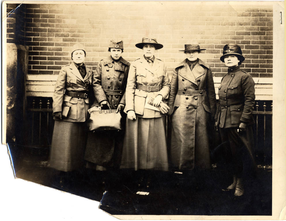 American Women's Hospitals was an organization linked to the Medical Women's National Association, and it was led by Dr.Esther Lovejoy from 1919 to 1967.